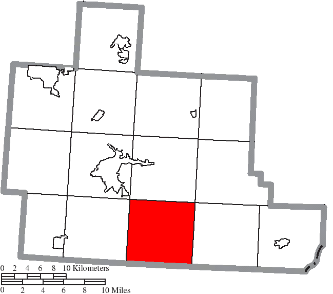 Map of the municipal and township boundaries of Athens County, Ohio, United States, as of the 2000 census, with the location of Lodi Township highlighted. Township borders are shown only in unincorporated areas in order to differentiate incorporated and unincorporated areas more clearly.